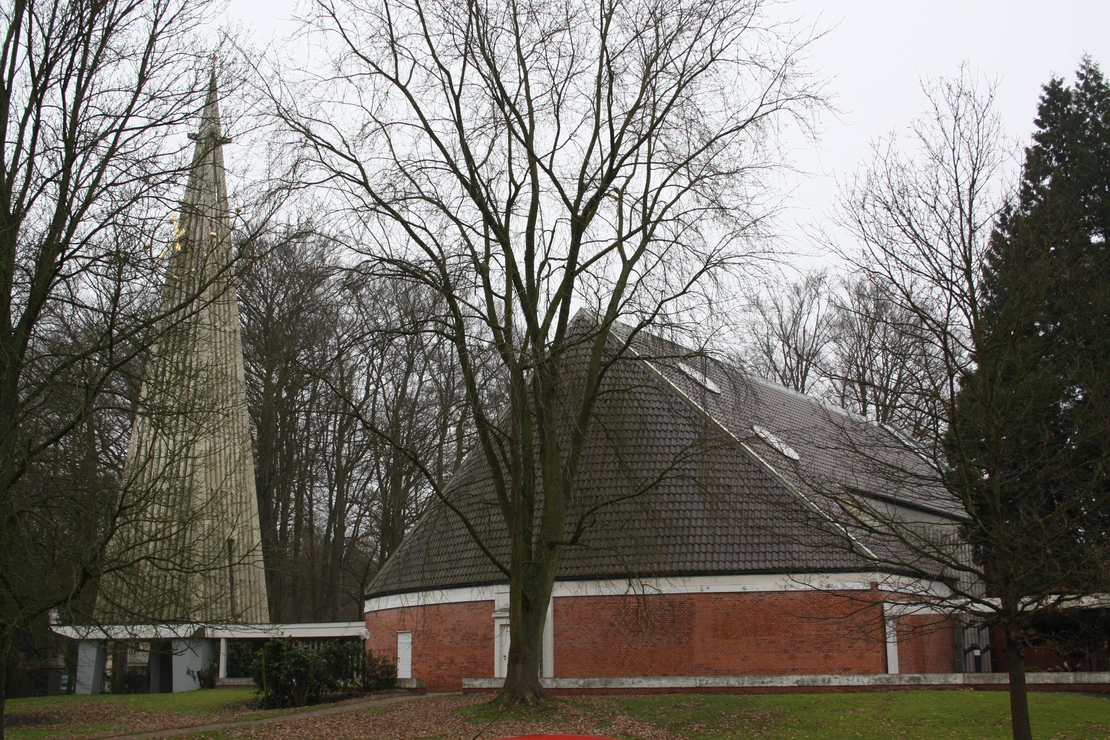 Church of the Lutheran parish "St. Magni" in Bremen-St. Magnus (Germany)